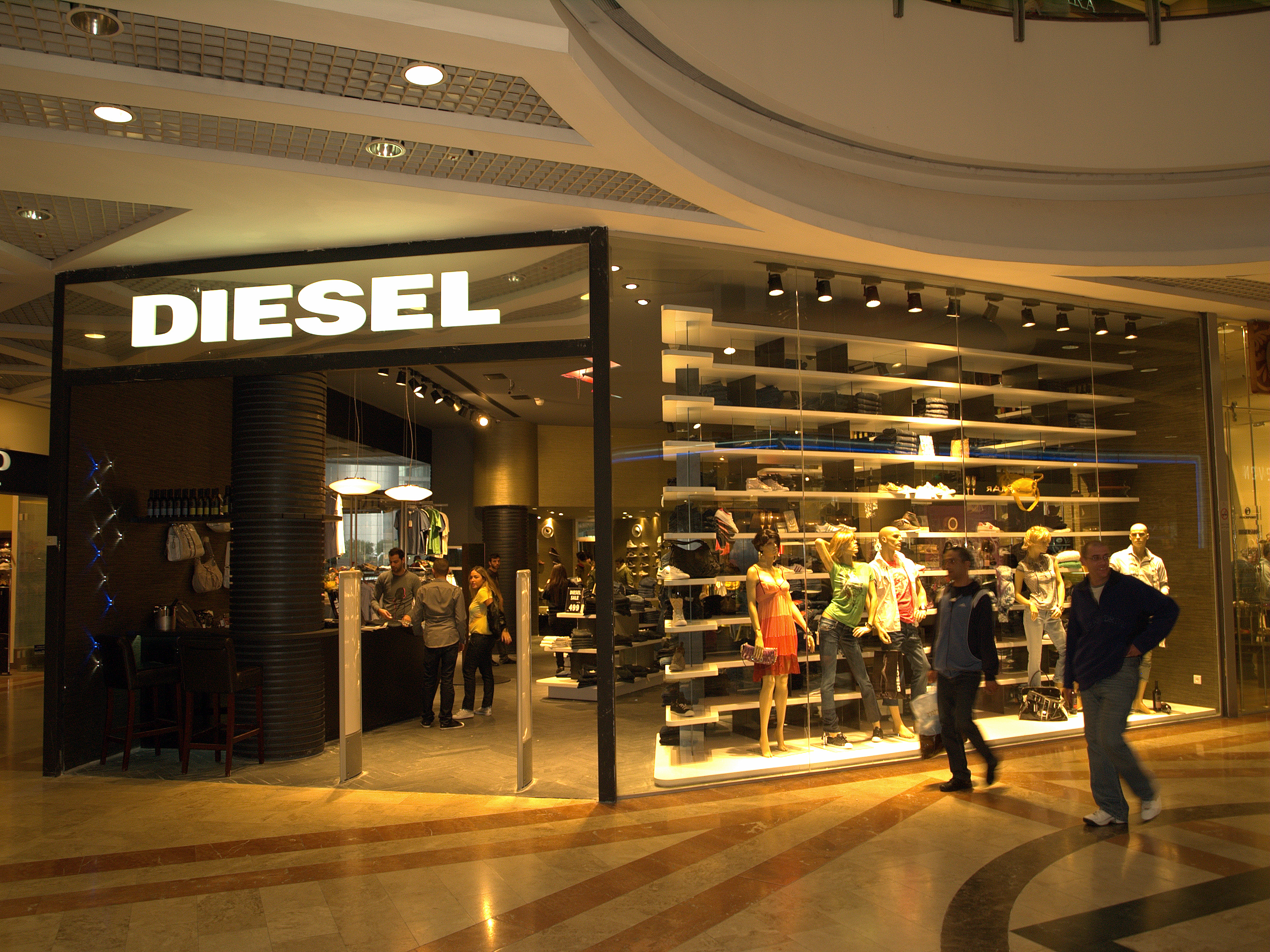 Diesel store in Tel Aviv, Israel.